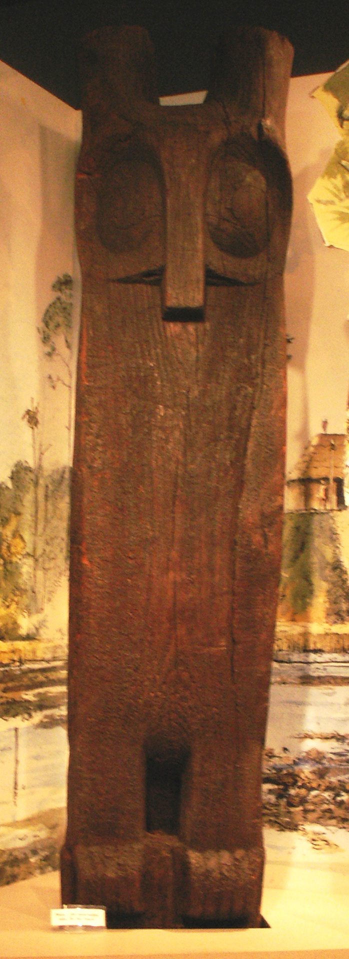 Timucua owl totem, discovered in 1955 buried in muck on Hontoon Island (now Hontoon Island State Park) in the St. Johns River, and currently on display at Fort Caroline National Memorial. It is the largest pre-Columbian wood carving found in Florida, and the only totem of its kind in the eastern United States. There is question now that this might be Mayacan rather than Timucuan since the Hontoon Island area was not inhabited by Timucuans.